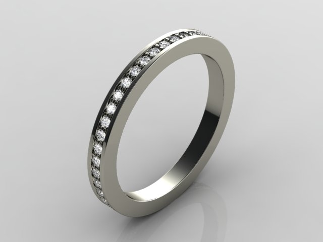 eternity ring render